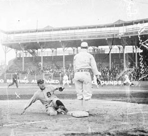 Photograph of baseball player Donie Bush sliding into third base on the field at South Side Park in the Armour Square community area of Chicago. Baseball player Tannehill of the Chicago White Sox baseball team, is standing at third base. Text on a billboard along the first baseline reads: No Betting Allowed On the Grounds.